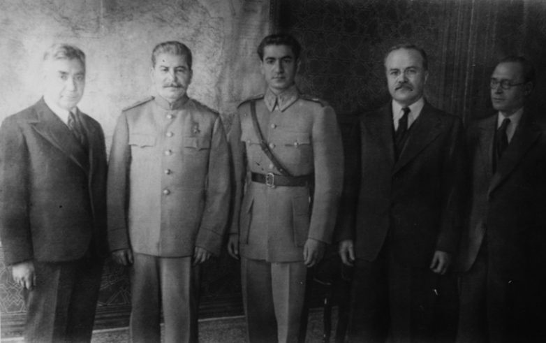 Mohammad Reza Schah, Stalin und Molotov, Tehran Conference, 1943